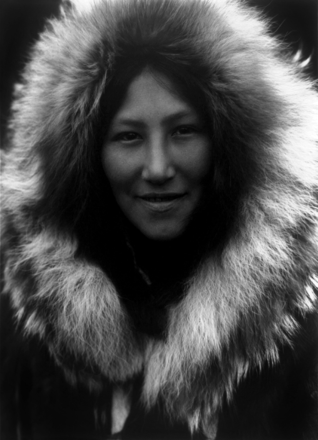 The photographs of Óla Noatak and Noatak Child are portraits of the wife and one of the children of Paul Ivanoff, Curtis' interpreter during his 1927 field trip. They lived on Nunivak Island where Paul was the local representative of the Lomen Reindeer Corporation, one of the enterprises that had been introduced. Paul, half-Russian and half-Eskimo, spoke not only the Nunivak language but several of the mainland languages as well. Curtis' daughter Beth Curtis Magnuson wrote about meeting Óla Noatak, noting that "Mrs Paul is charming, quite bashful and shy." Both mother and child wear traditional fur parkas in the two images. The child's fingers are positioned in a manner that may indicate his dexterity in playing string games, a favorite pastime among many Alaskan natives.